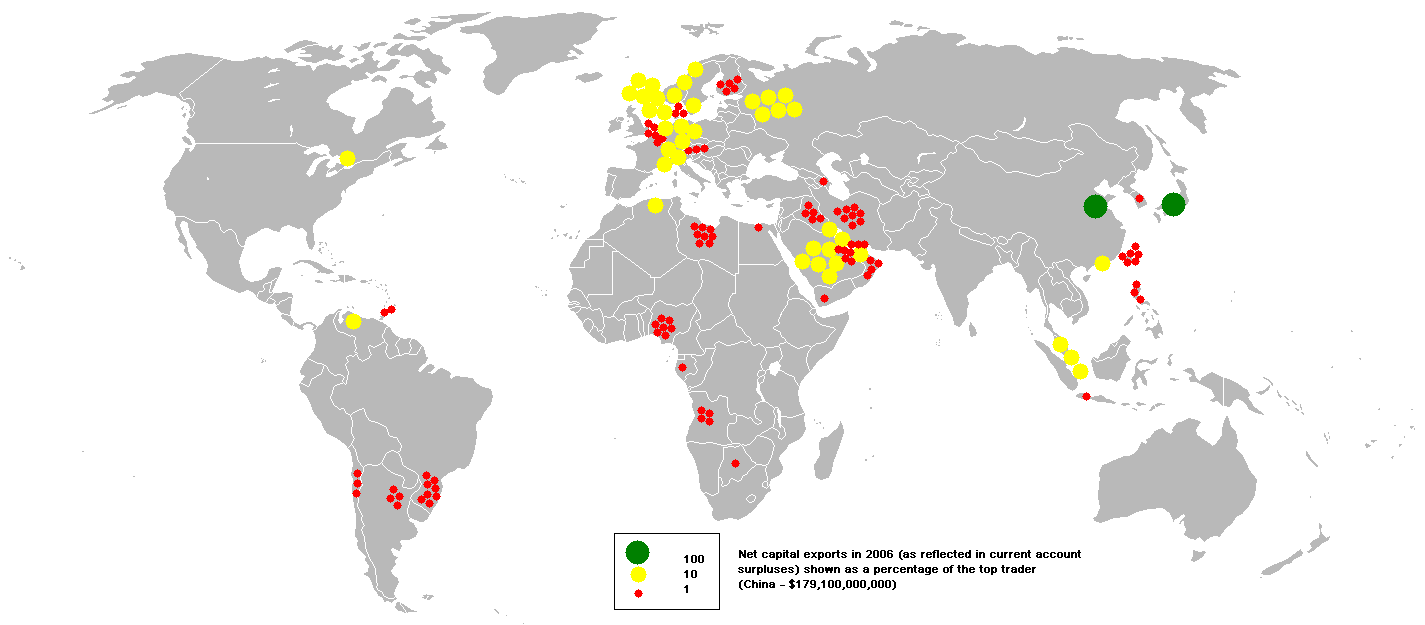 This bubble map shows the global distribution of net capital exports (as reflected in current account surpluses) in 2006 as a percentage of the top trader (China - $179,100,000,000). This map is consistent with incomplete set of data too as long as the top producer is known. It resolves the accessibility issues faced by colour-coded maps that may not be properly rendered in old computer screens. Data was extracted on 19th June 2007. Source - Based on :Image:BlankMap-World.png